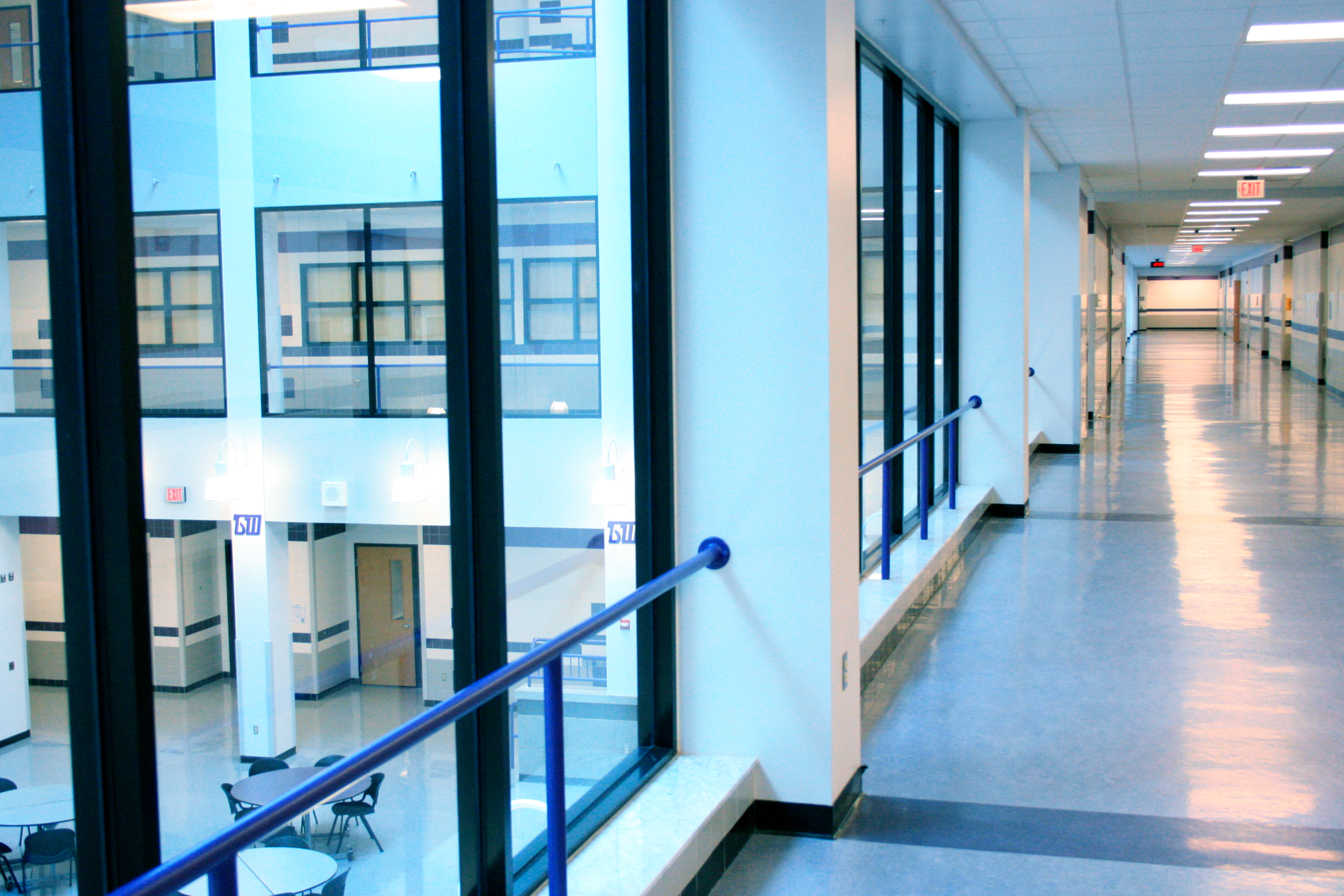 Long hallway with floor-to-ceiling windows to the left, overlooking a bright atrium. The walls are white and the floor is purple with grey accents throughout.